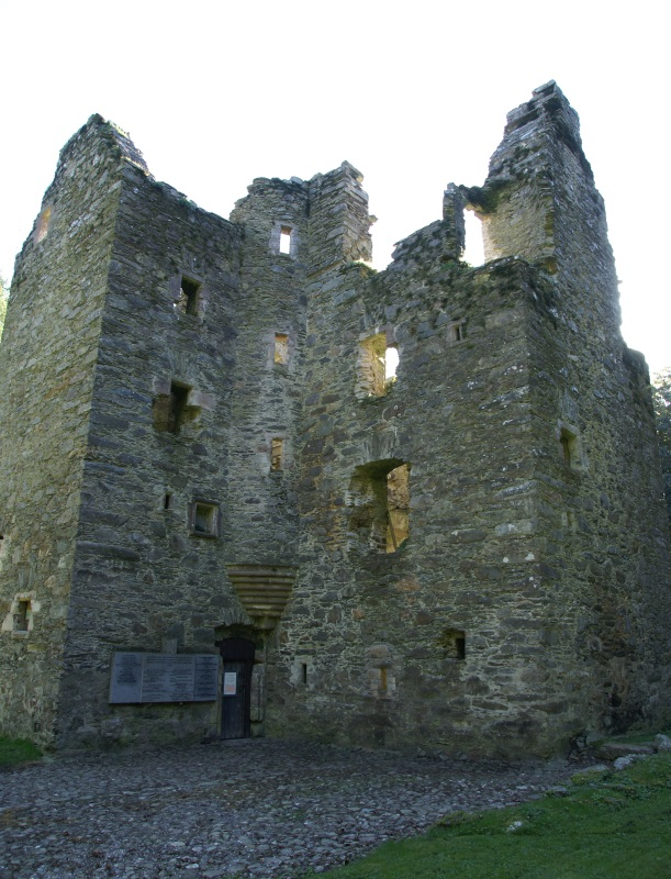 Sorbie Tower, Sorbie, Dumfries and Galloway, Scotland. From south east.